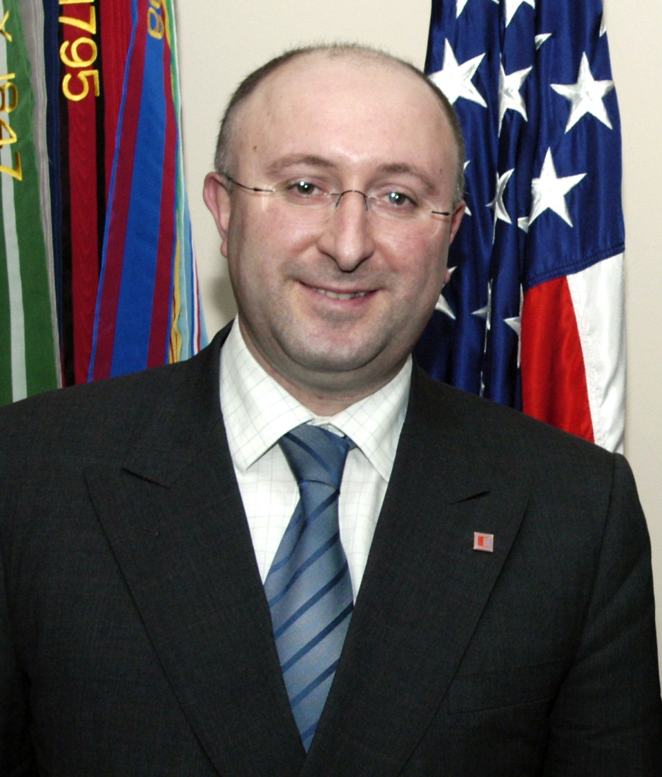 Gela Bezhuashvili, Minister of Foreign Affairs of Georgia, 2005–2008